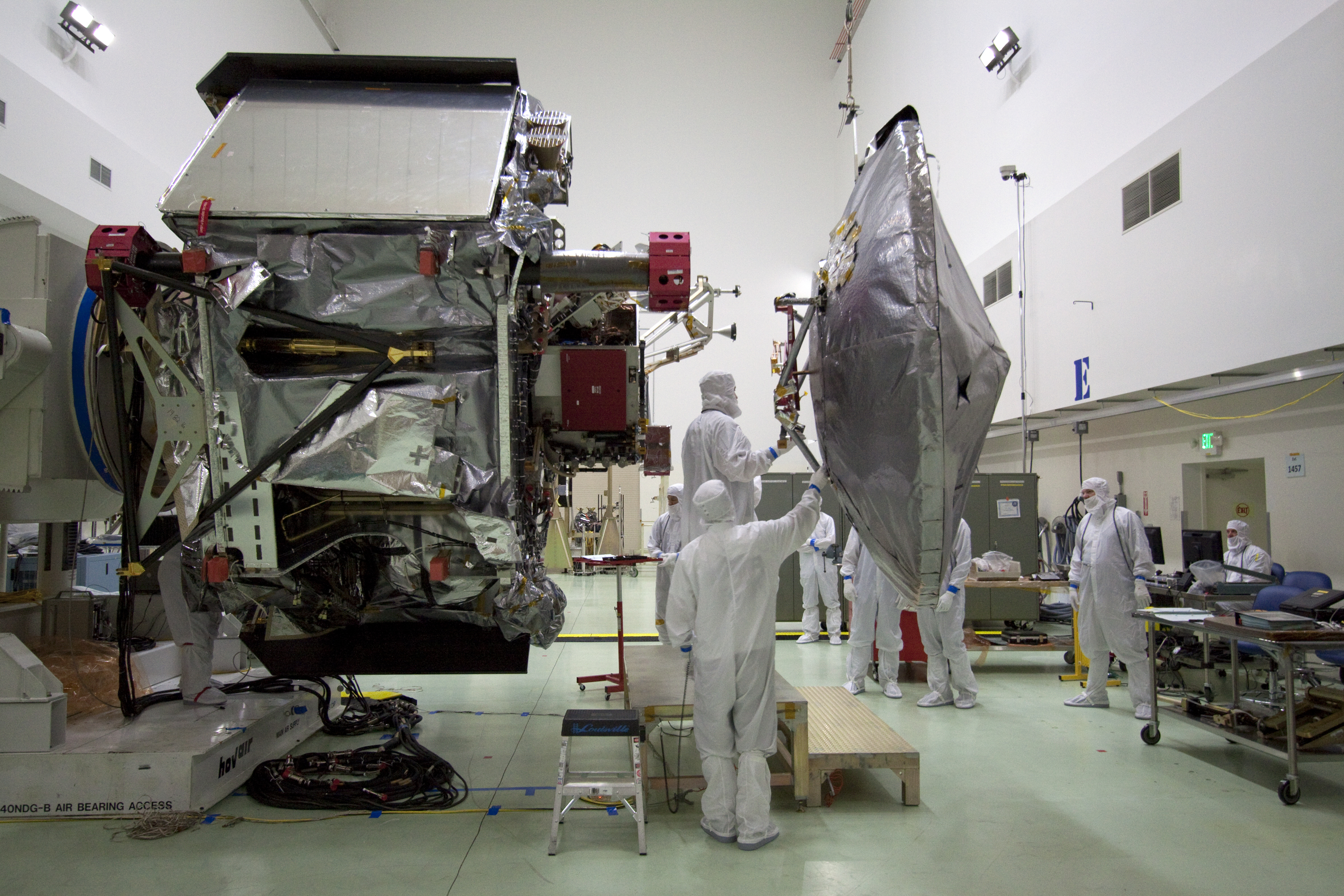 CAPE CANAVERAL, Fla. -- Technicians at Astrotech's payload processing facility in Titusville, Fla. attach an overhead crane to the high-gain antenna that will be installed to NASA's Juno spacecraft. Juno is scheduled to launch aboard an Atlas V rocket from Cape Canaveral, Fla. Aug. 5.The solar-powered spacecraft will orbit Jupiter's poles 33 times to find out more about the gas giant's origins, structure, atmosphere and magnetosphere and investigate the existence of a solid planetary core. For more information visit